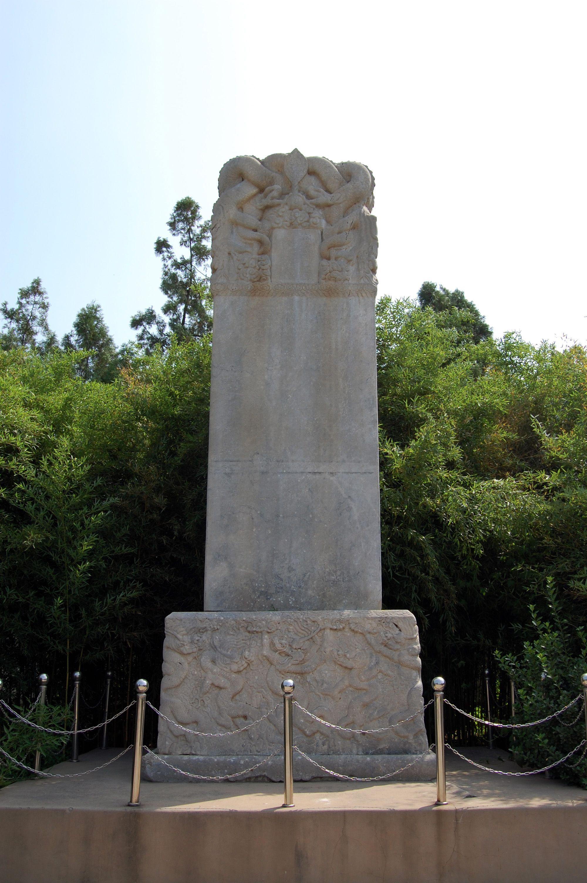 Sanyi_Temple, Zhuozhou, HEBEI, CHINA